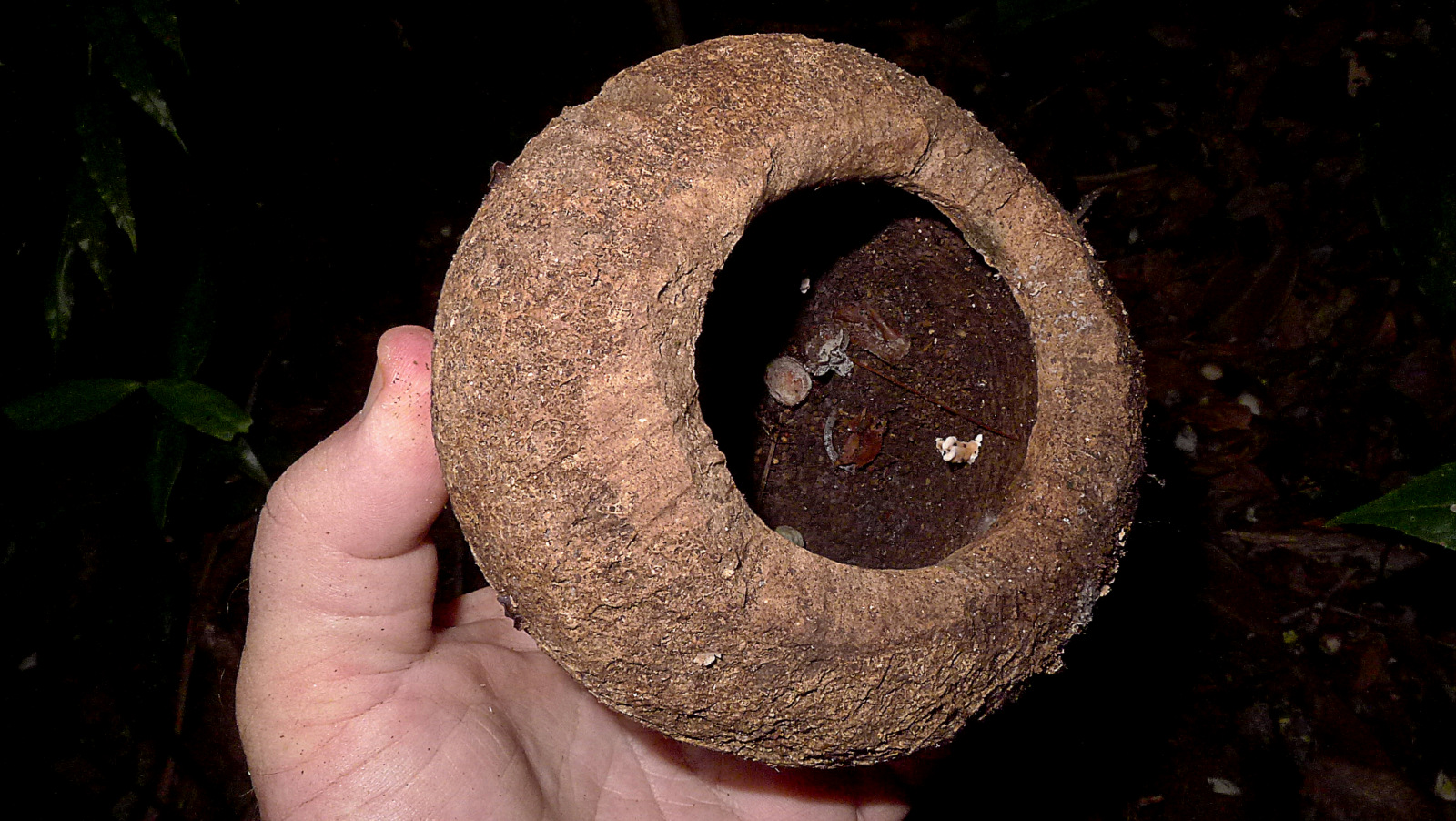 Lecythis marcgraaviana Miers